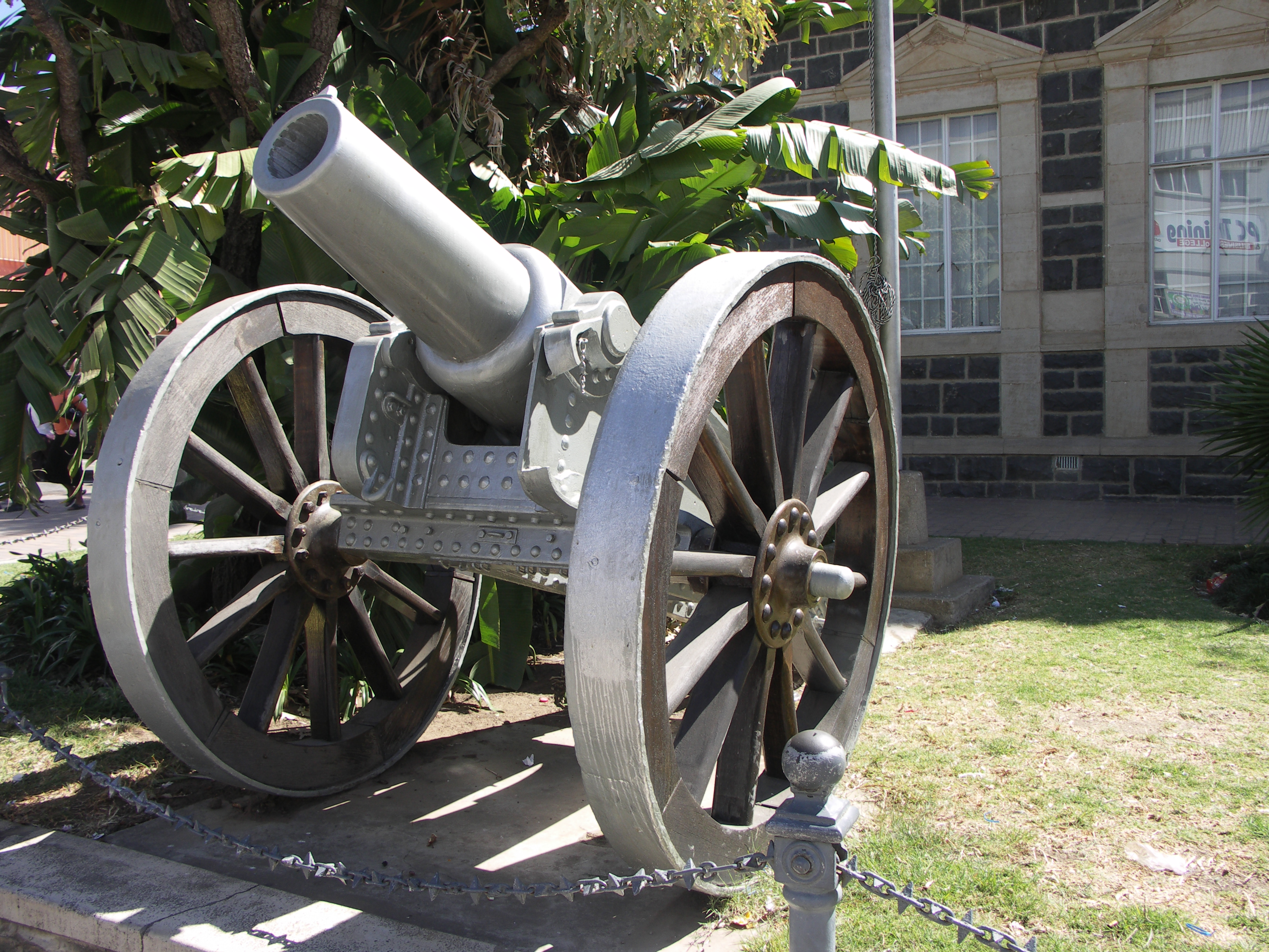 A RML 6.3 inch Howitzer used by British forces during the Siege of Ladysmith. Two of them stand before the Ladysmith Town Hall, affectionately known as Castor and Pollux. Viewed from the rear, this is the one on the right. Unknown if it is Castor or Pollux.